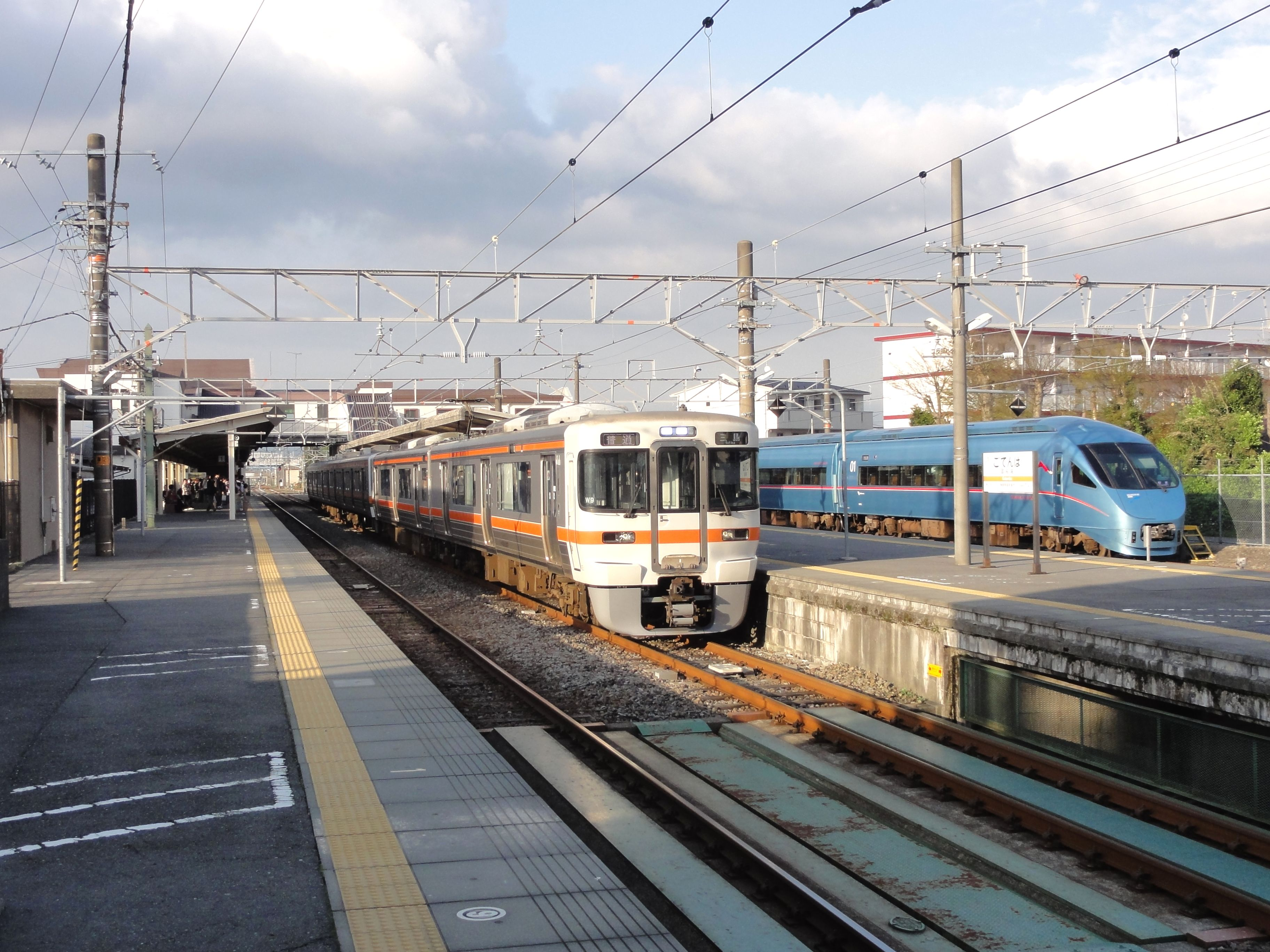 Gotemba Station platforms, with a JR Central 313 series train on the left and an Odakyu 60000 series MSE train stabled on the right